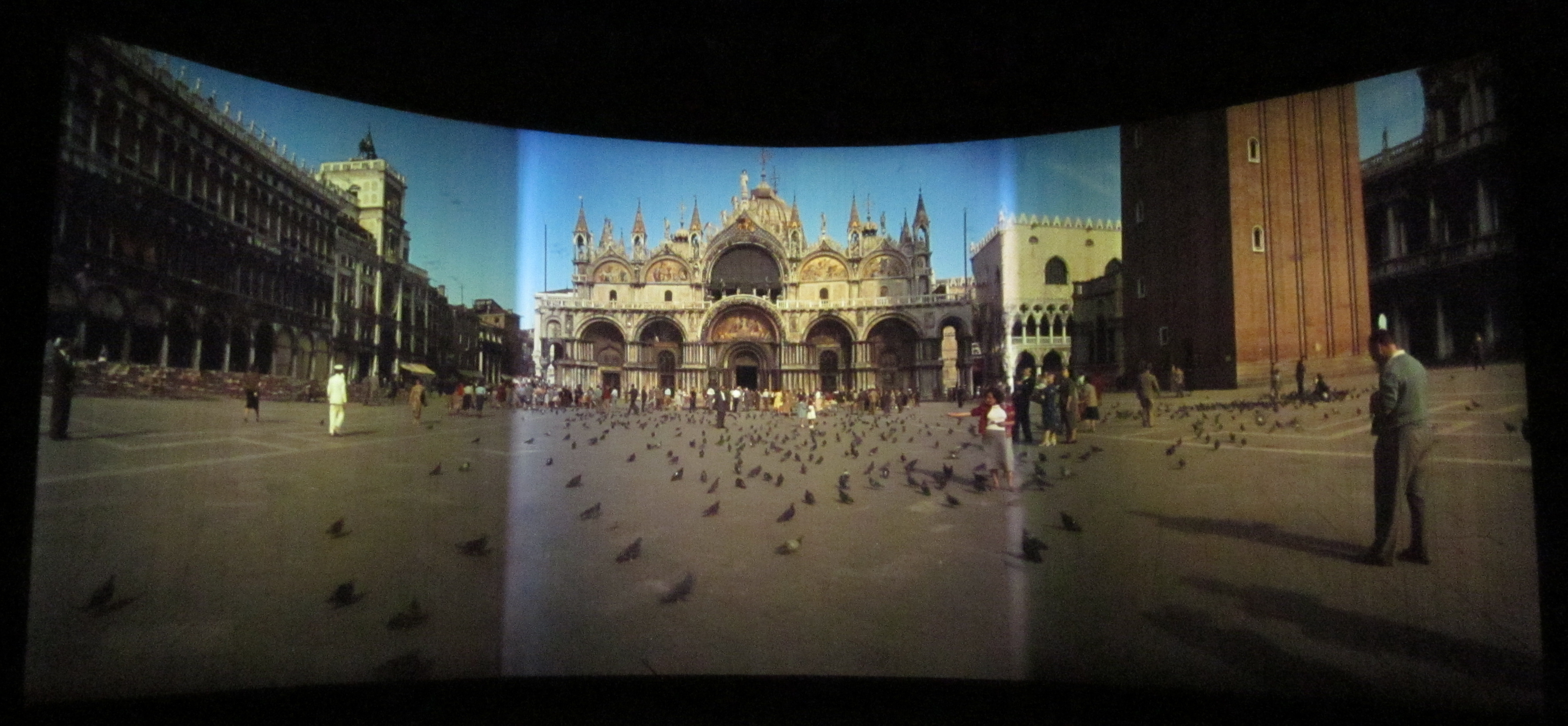 Scene from the film "This is Cinerama" (public domain) from 3 projectors